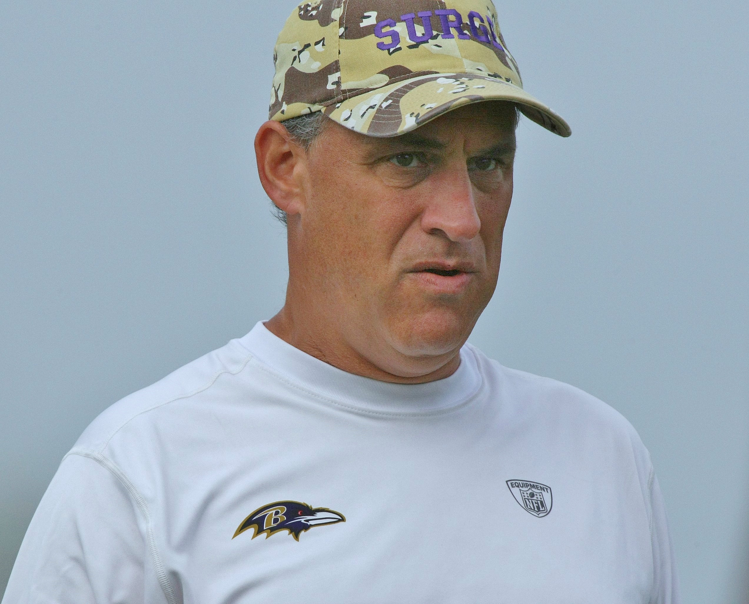 Baltimore Ravens Training Camp August 21, 2009 - Linebackers coach Vic Fangio.